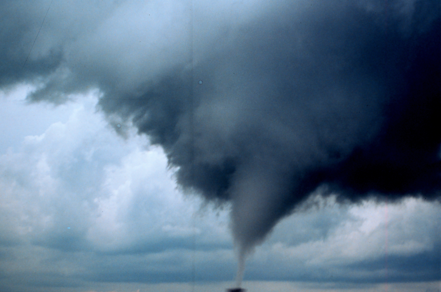 Description: Project Vortex-99. An occluded mesocyclone tornado rated an F3 by an NWS damage survey. Occluded means old circulation on a storm; this tornado was forming while the new circulation was beginning to form the tornadoes which preceeded the F5 Oklahoma City tornado. Photo #1 of sequence. Image ID: nssl0208, National Severe Storms Laboratory (NSSL) Collection Location: 10 mi. south of Anadarko, Oklahoma Photo Date: May 3, 1999